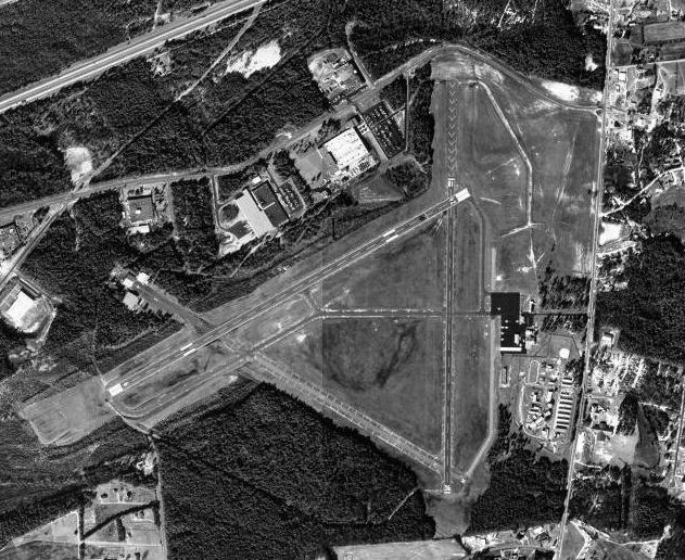 USGS digital orthophoto of Aiken Municipal Airport (formerly Aiken Army Airfield) in Aiken, South Carolina, United States.